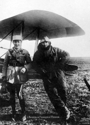 The french aviator Georges Madon on the wing of his Spad fighter aircraft. Source website Australian War Memorial declares the image as Copyright expired - public domain